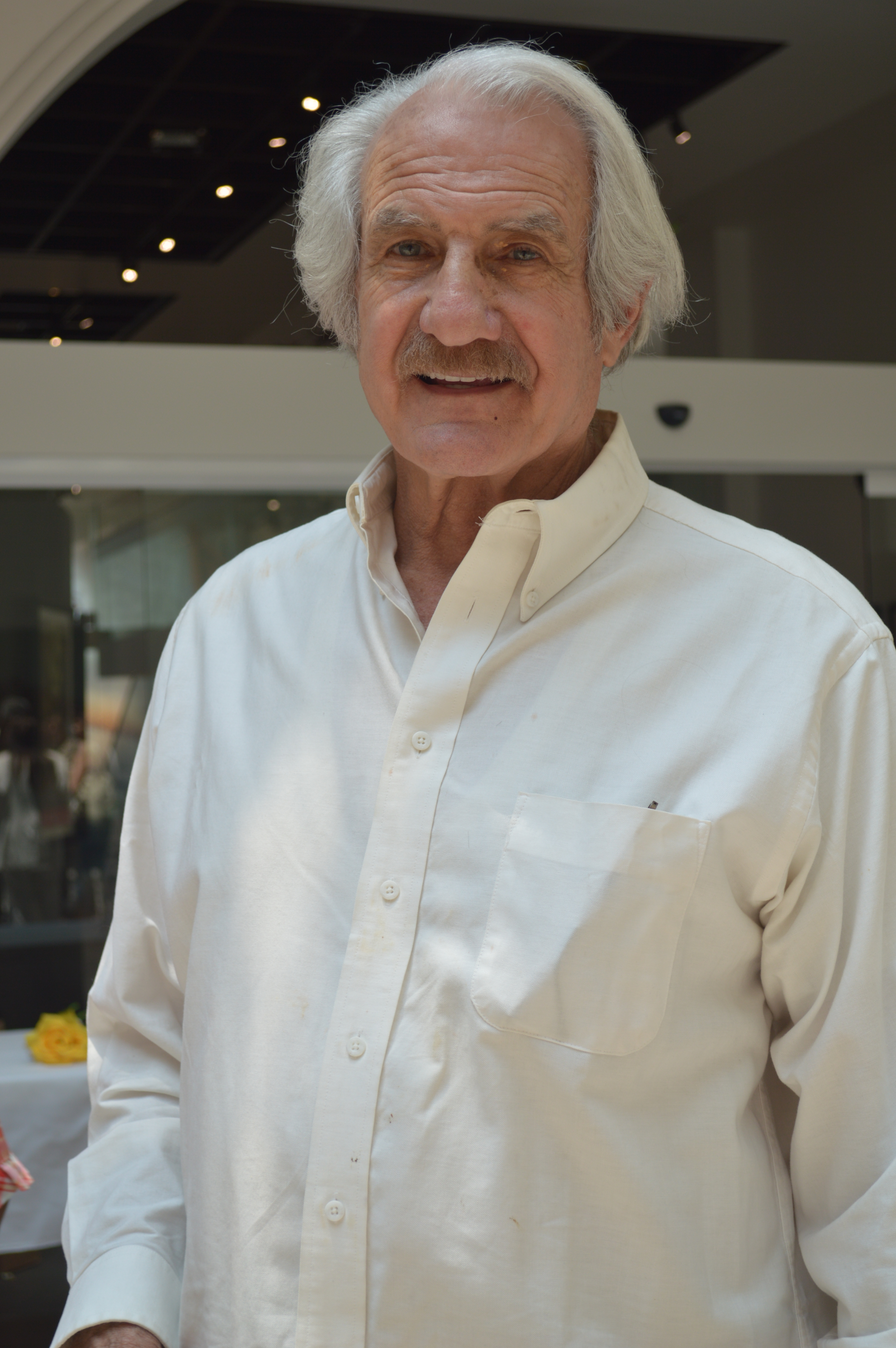 Brian Nissen at the opening of the Teatrines y Bataclanas exhibition at the Museo de Arte Popular in Mexico City